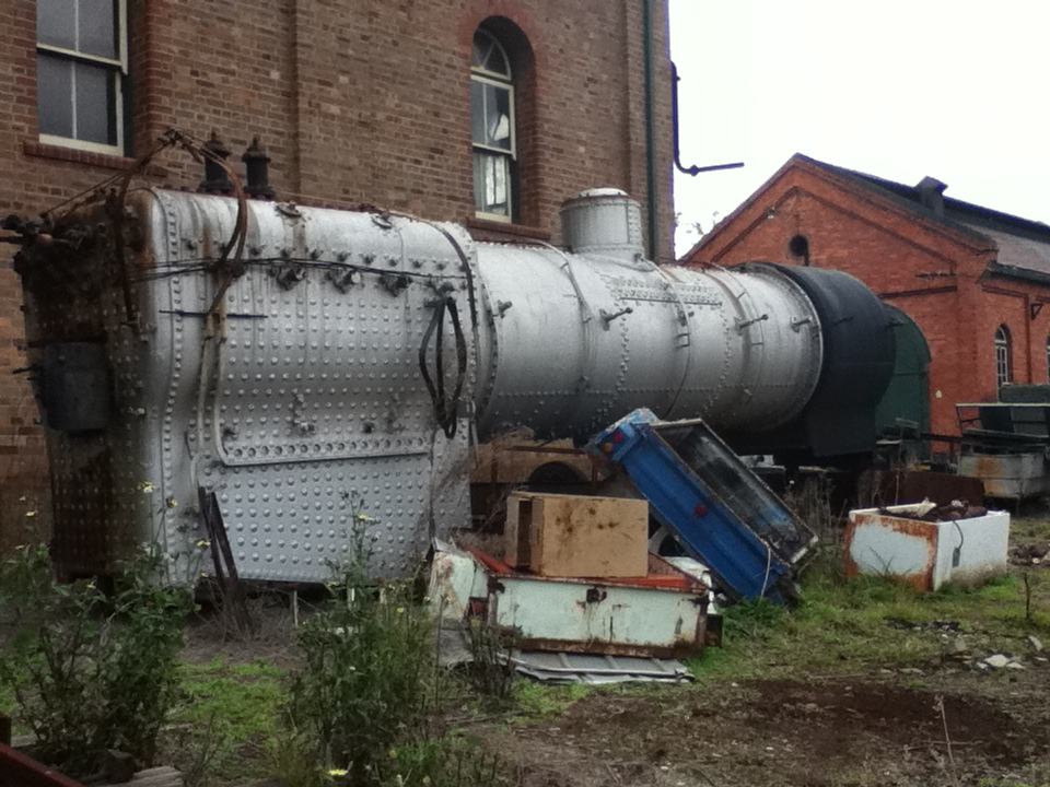 ROD No 23's Boiler stored at the Richmond Vale Railway Museum